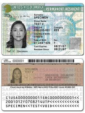 'USCIS To Issue Redesigned Green Card'